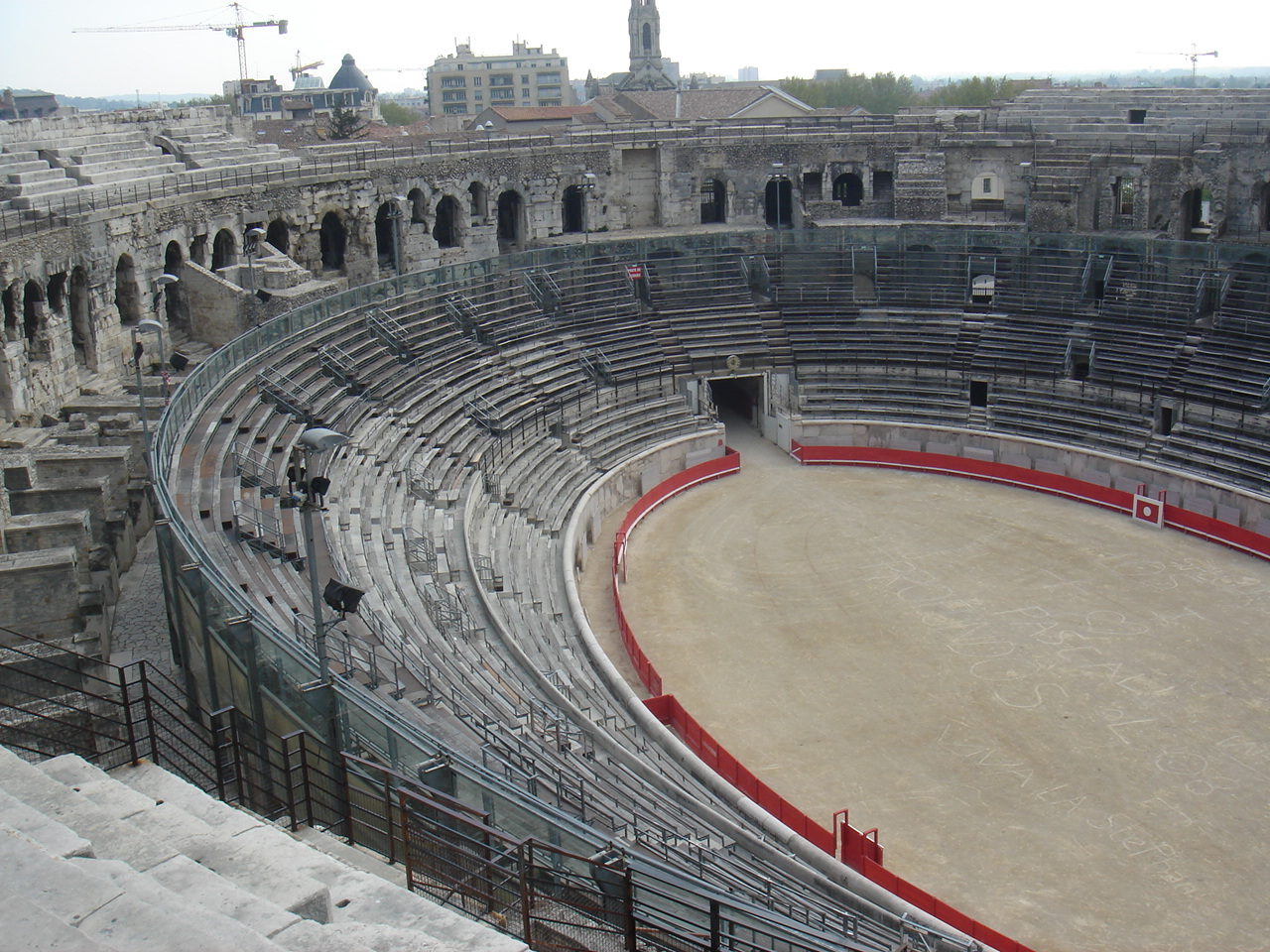 The Roman amphitheatre of Nîmes. View from the inside.